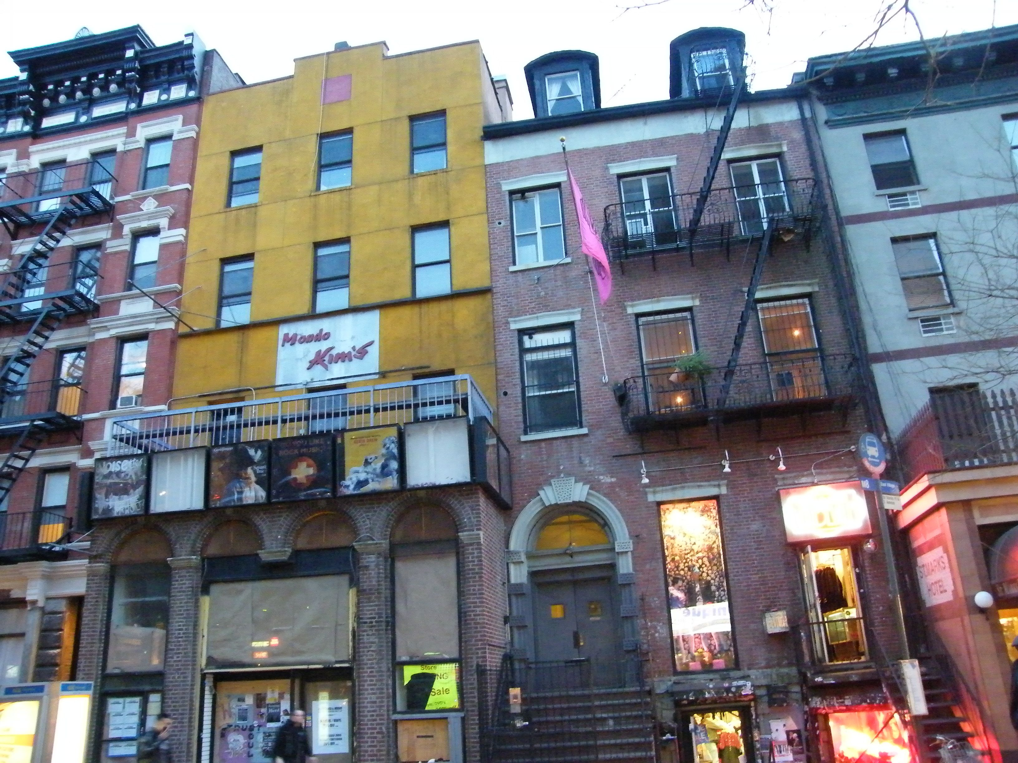 The building on the left is the former location of St. Marks Baths on East Village, New York City. On the right is the Hamilton-Holly House historic landmark.